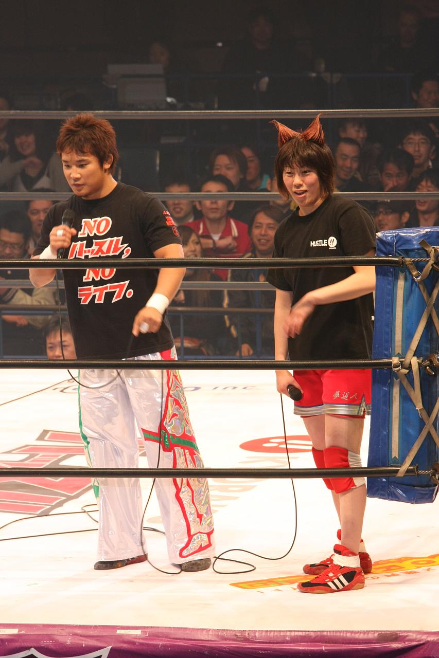 KUSHIDA and Chie